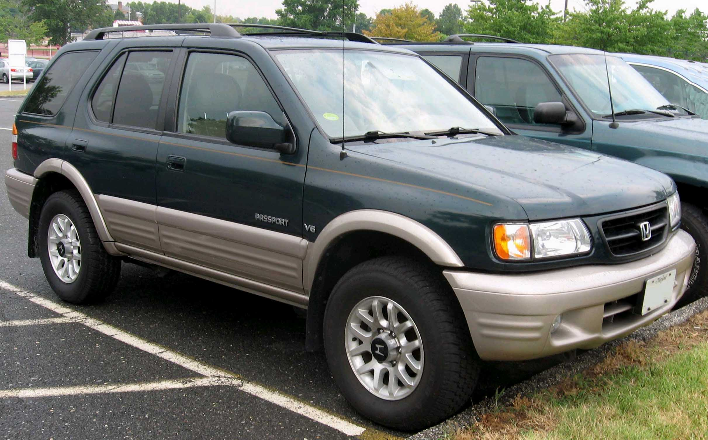 1998-2002 Honda Passport photographed in College Park, Maryland, USA.